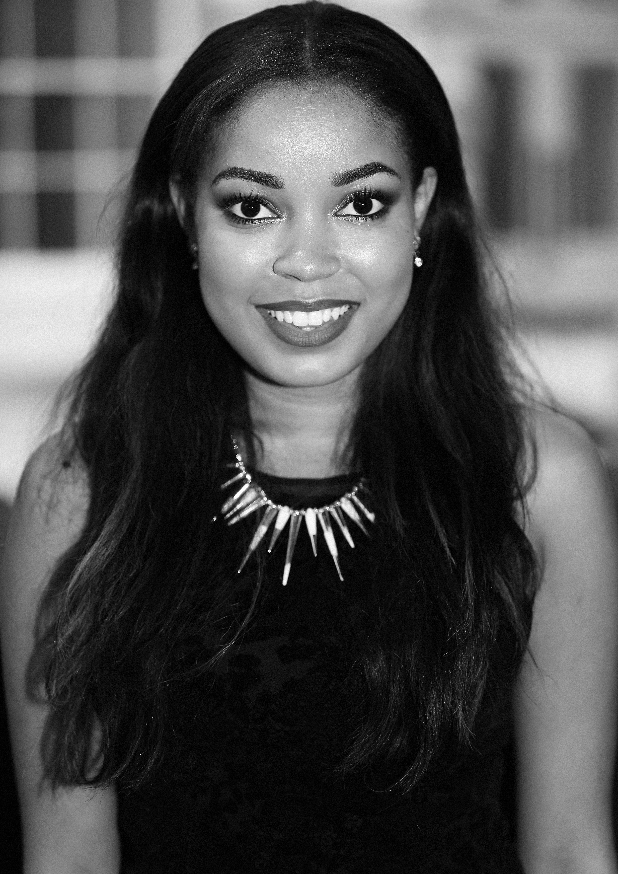 Dionne Julia Bromfield (born 1 February 1996[2] in London) is a British soul singer-songwriter and TV presenter Photo by : Walterlan Papetti